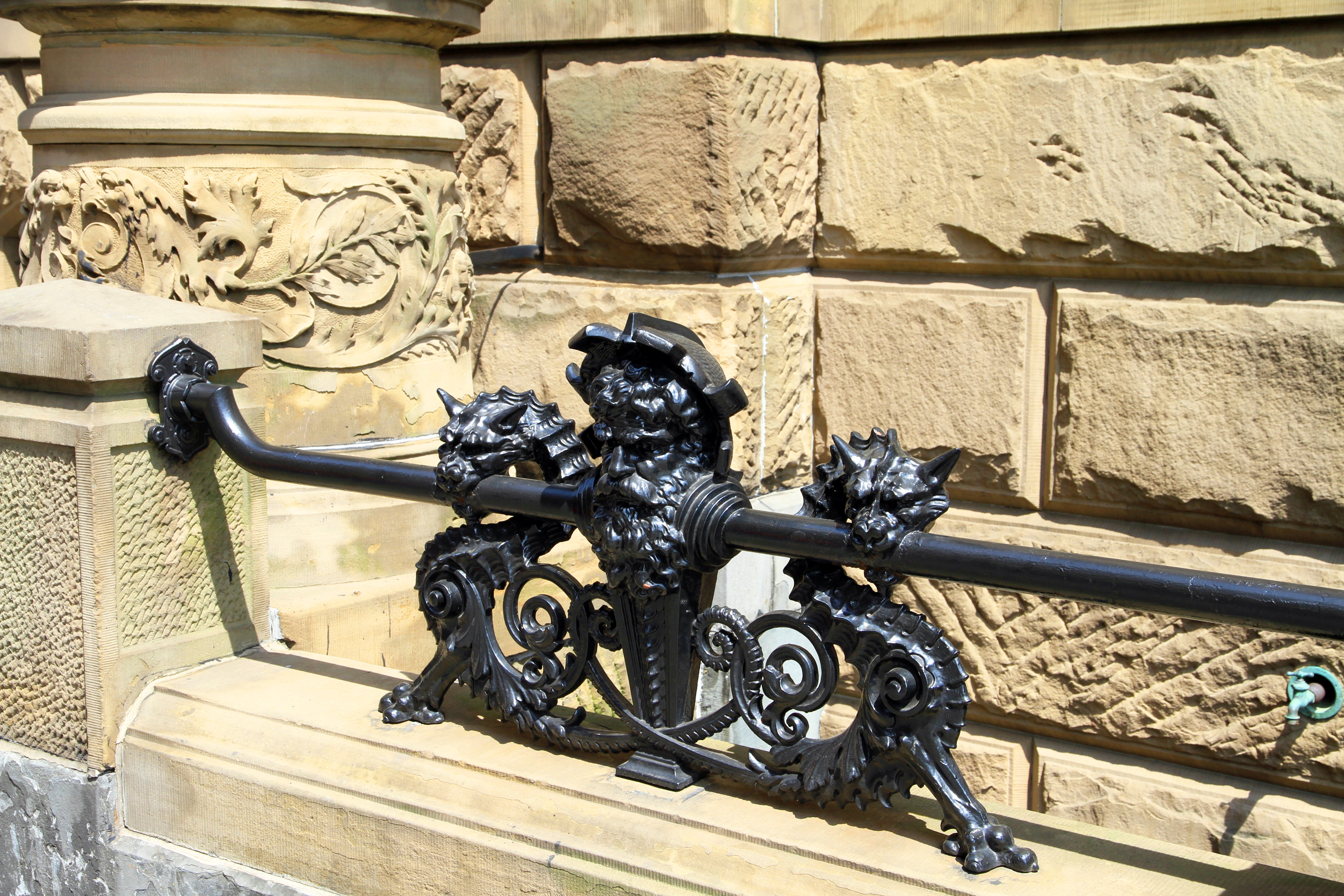 Dakota Building